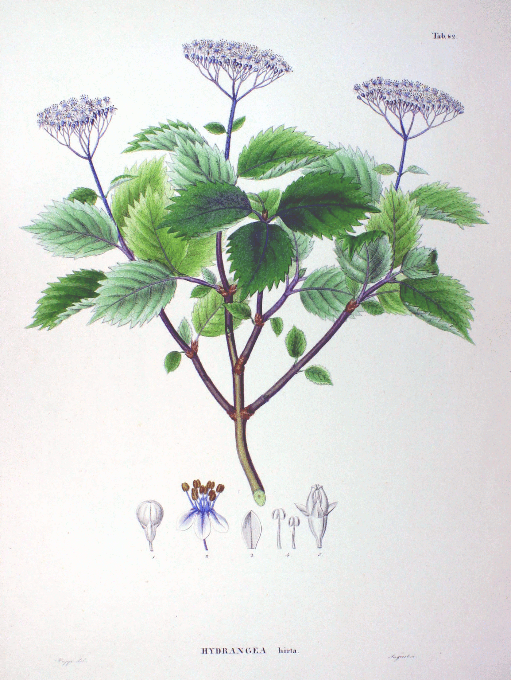 Hydrangea hirta Plate from book